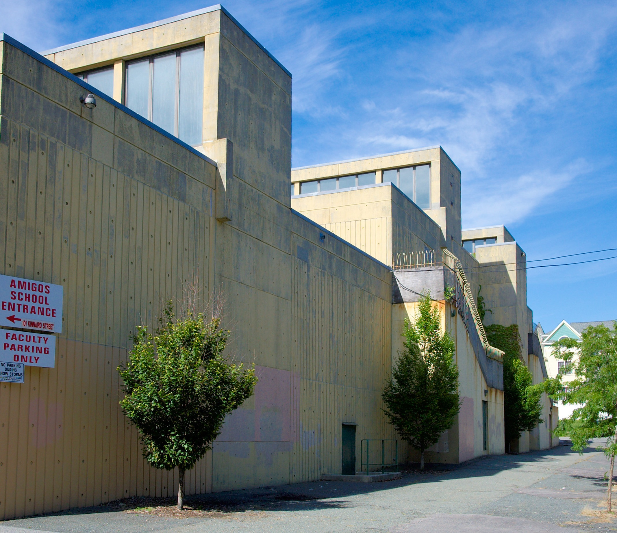 Amigos School, a bilingual facility in Cambridge, Massachusetts